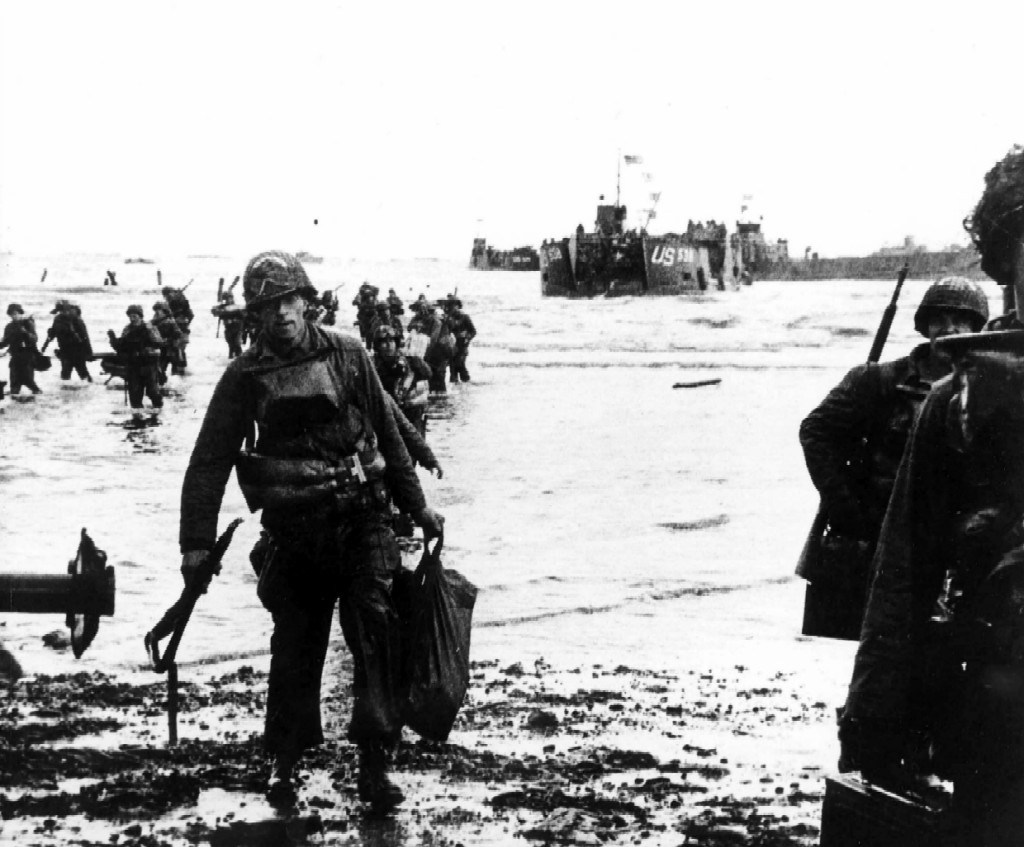 Carrying full equipment, American assault troops move onto Utah Beach on the northern coast of France. Landing craft, in the background, jams the harbor.